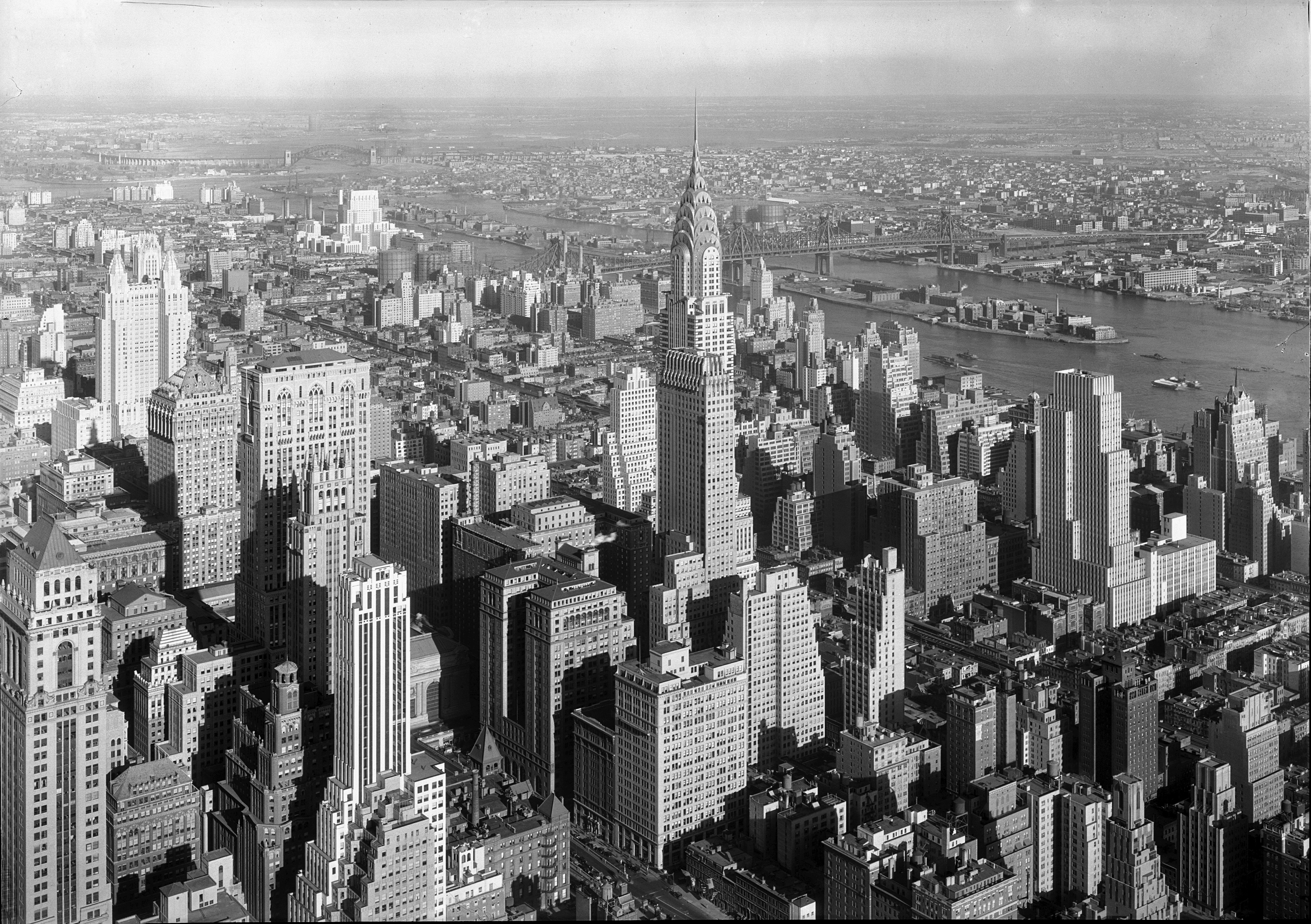 Empire State Building, New York City. [View from], to Chrysler Bldg. and Queensboro Bridge, low viewpoint